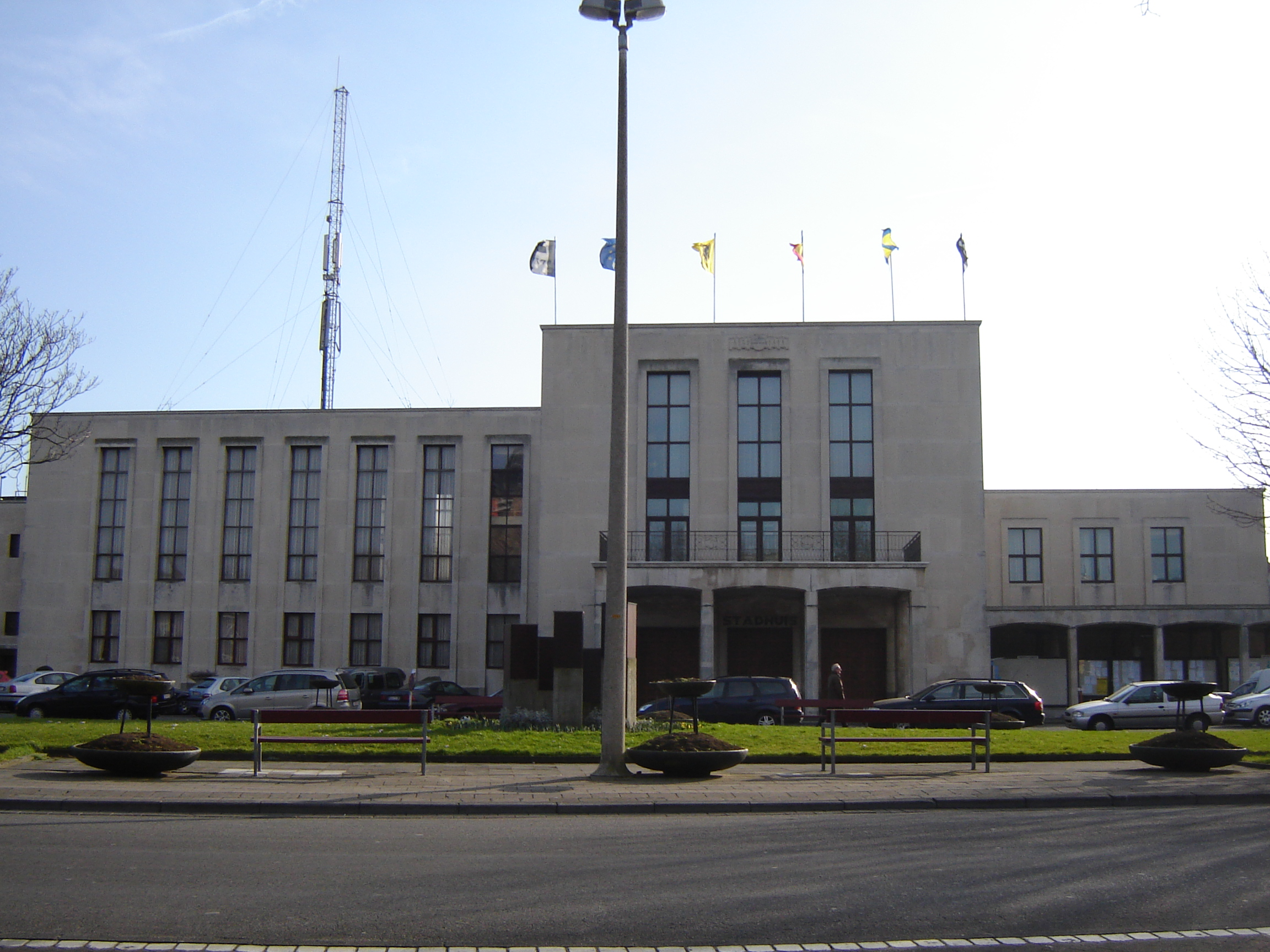 City hall of Blankenberge. Blankenberge, West Flanders, Belgium